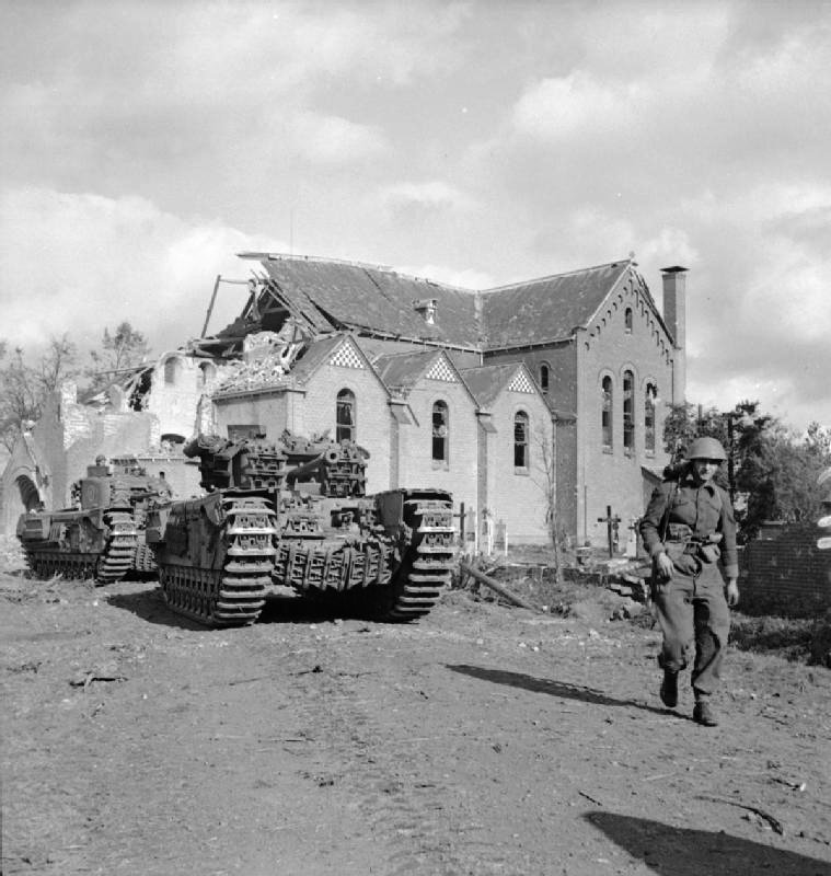 The British Army in North-west Europe 1944-45 Churchill tanks and infantry advance during the attack by 3rd Division on an enemy pocket near Overloon, 14 October 1944.